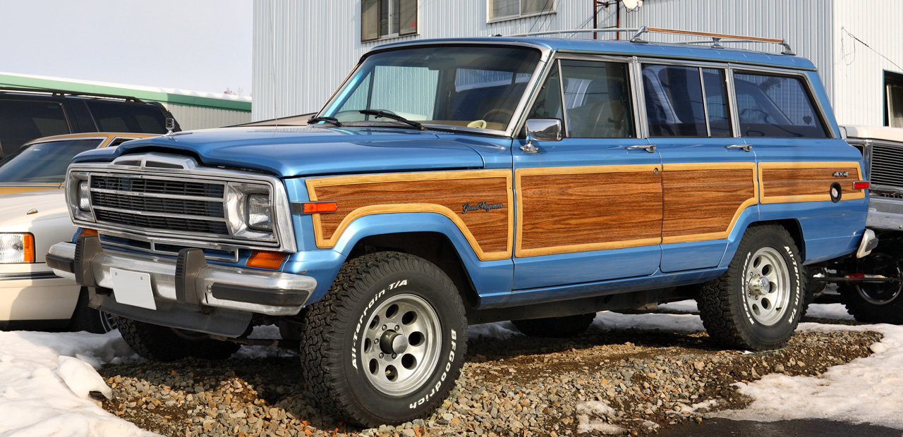 Jeep Grand Wagoneer